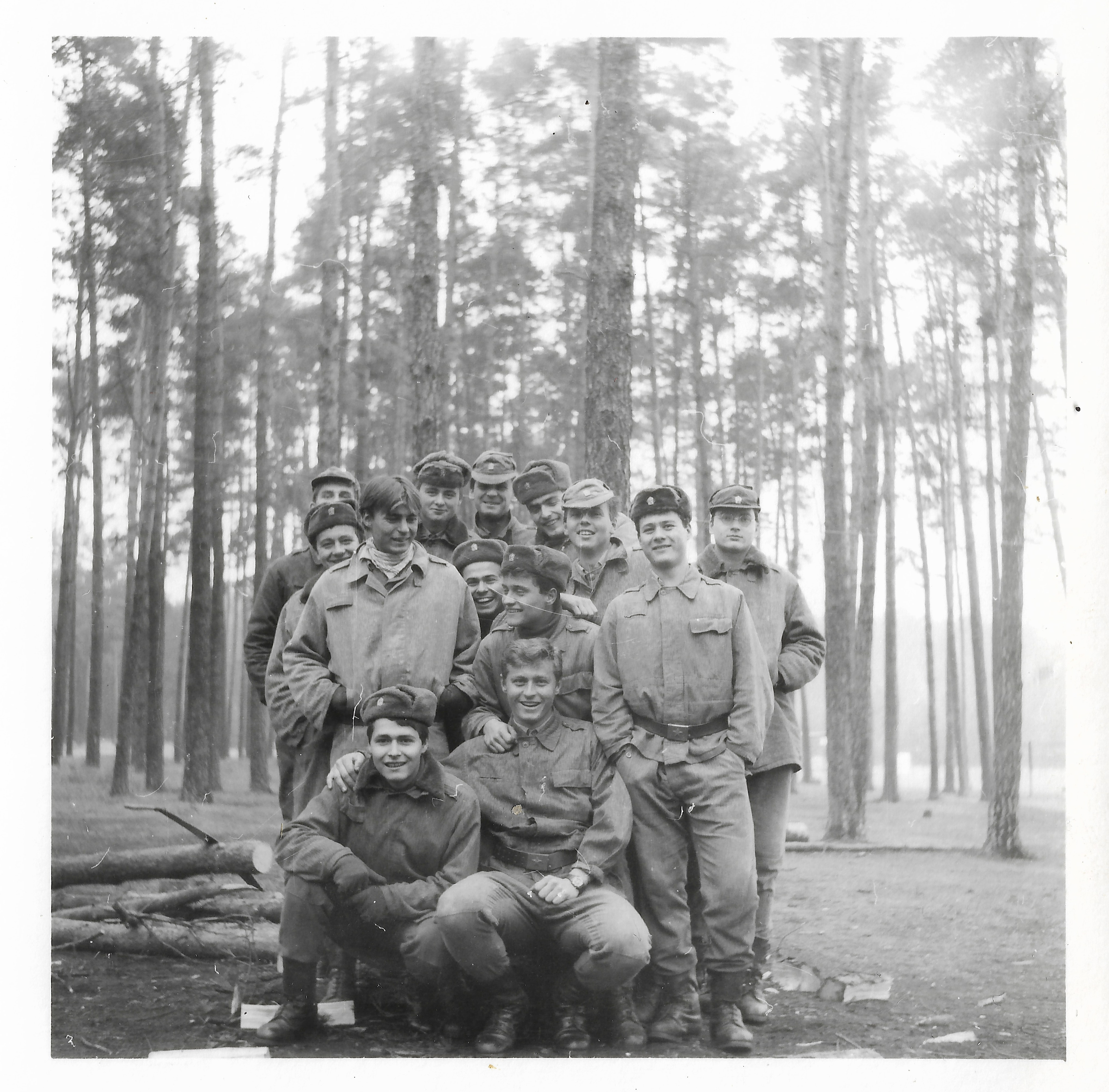 Recruits of the Czechoslovak People's Army in woods around Bzenec, Czechoslovakia in circa 1986; scanned in April 2020